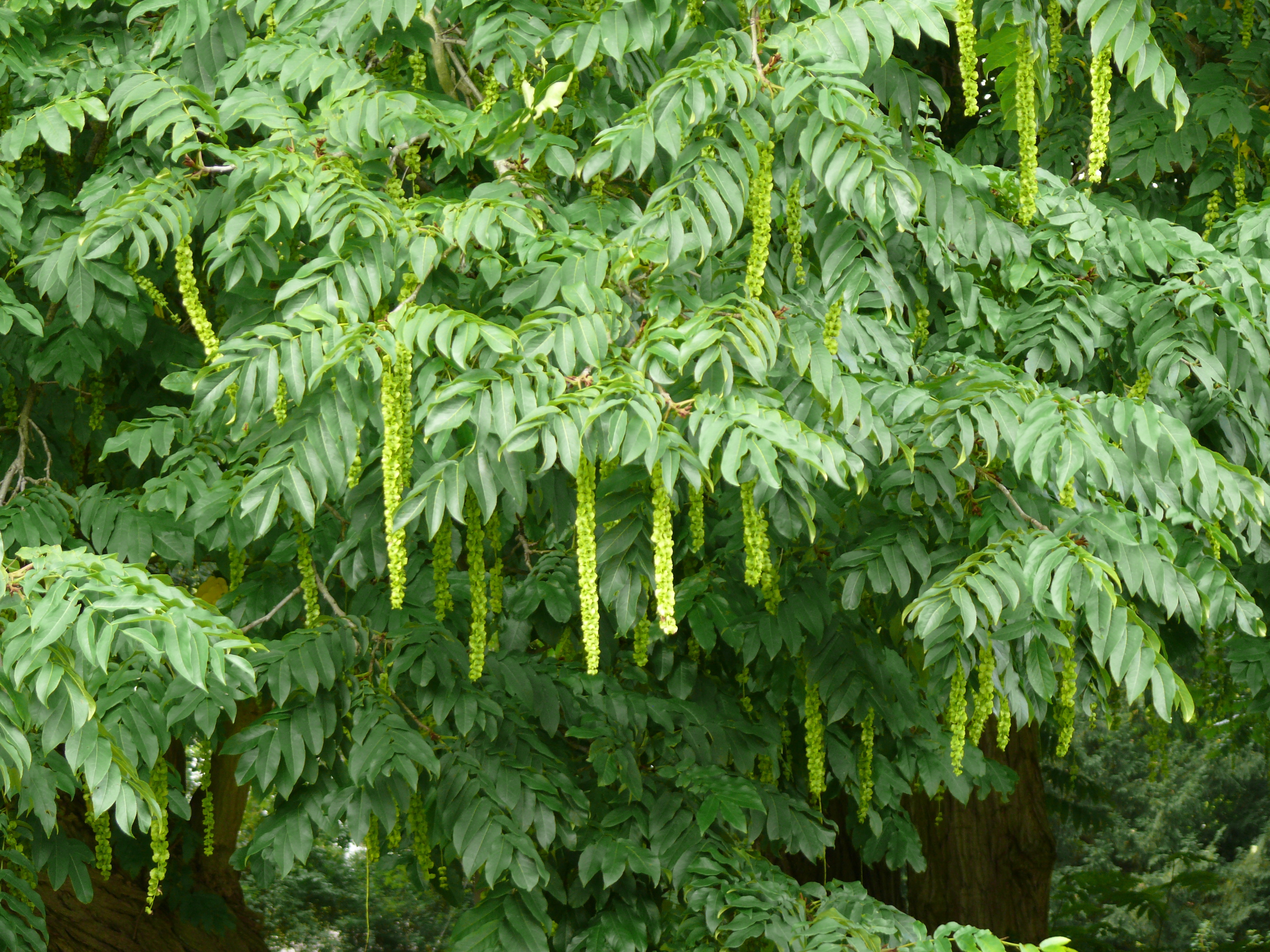 Wingnut (Pterocarya fraxinifolia) at "Kurpark" in Bad Homburg, Hesse, Germany